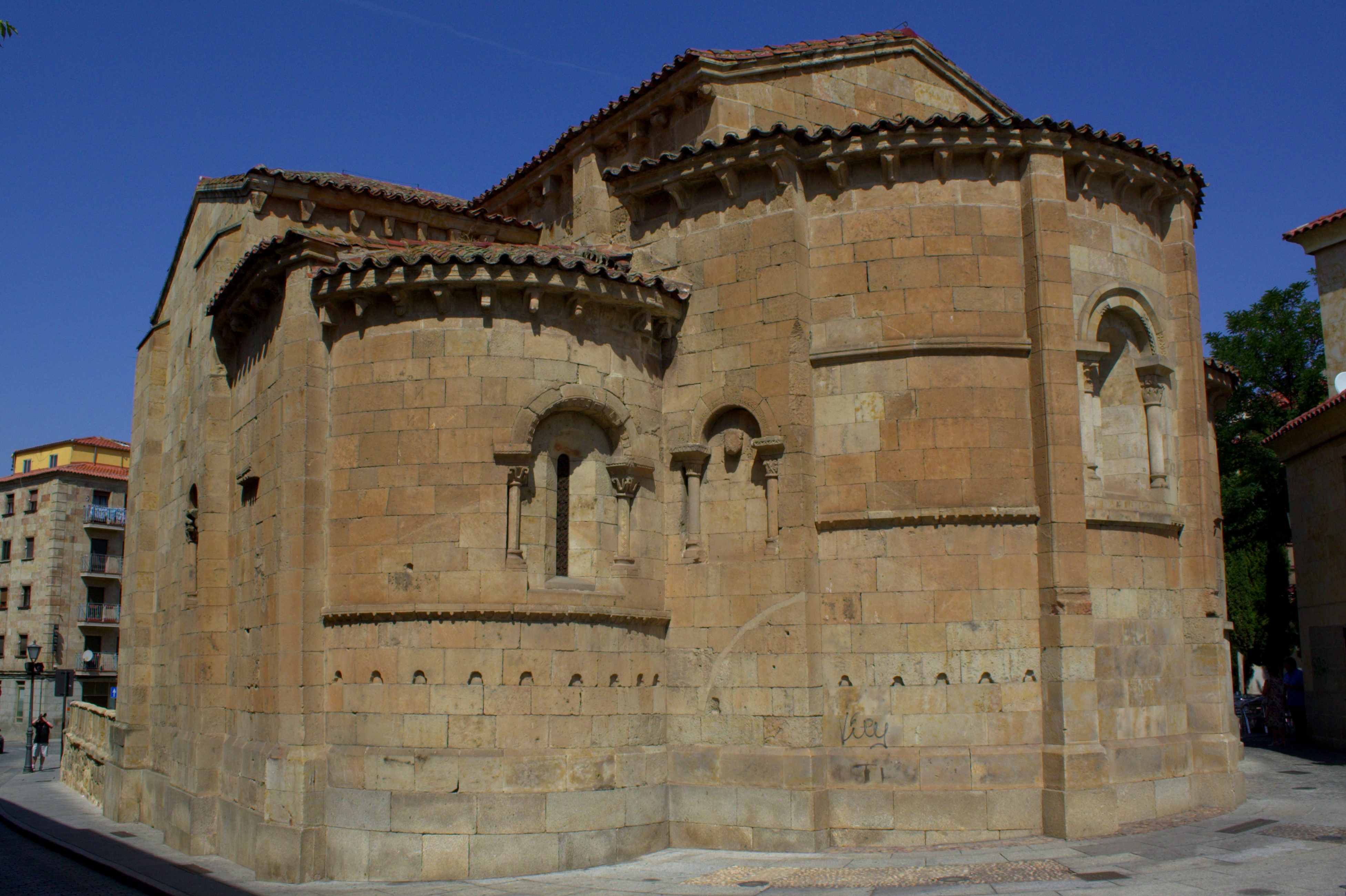 Apses of Santo Tomás Cantuariense church (Salamanca)